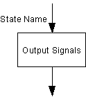 A state box used in ASM charts.